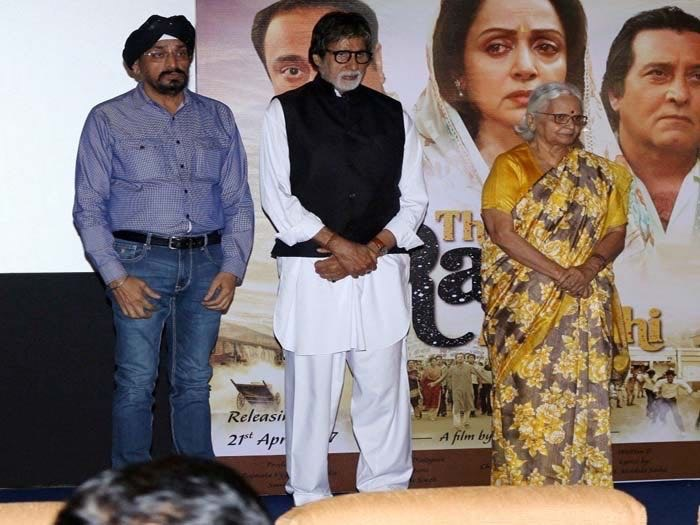 Gul Bahar Singh with Amitab Bachan